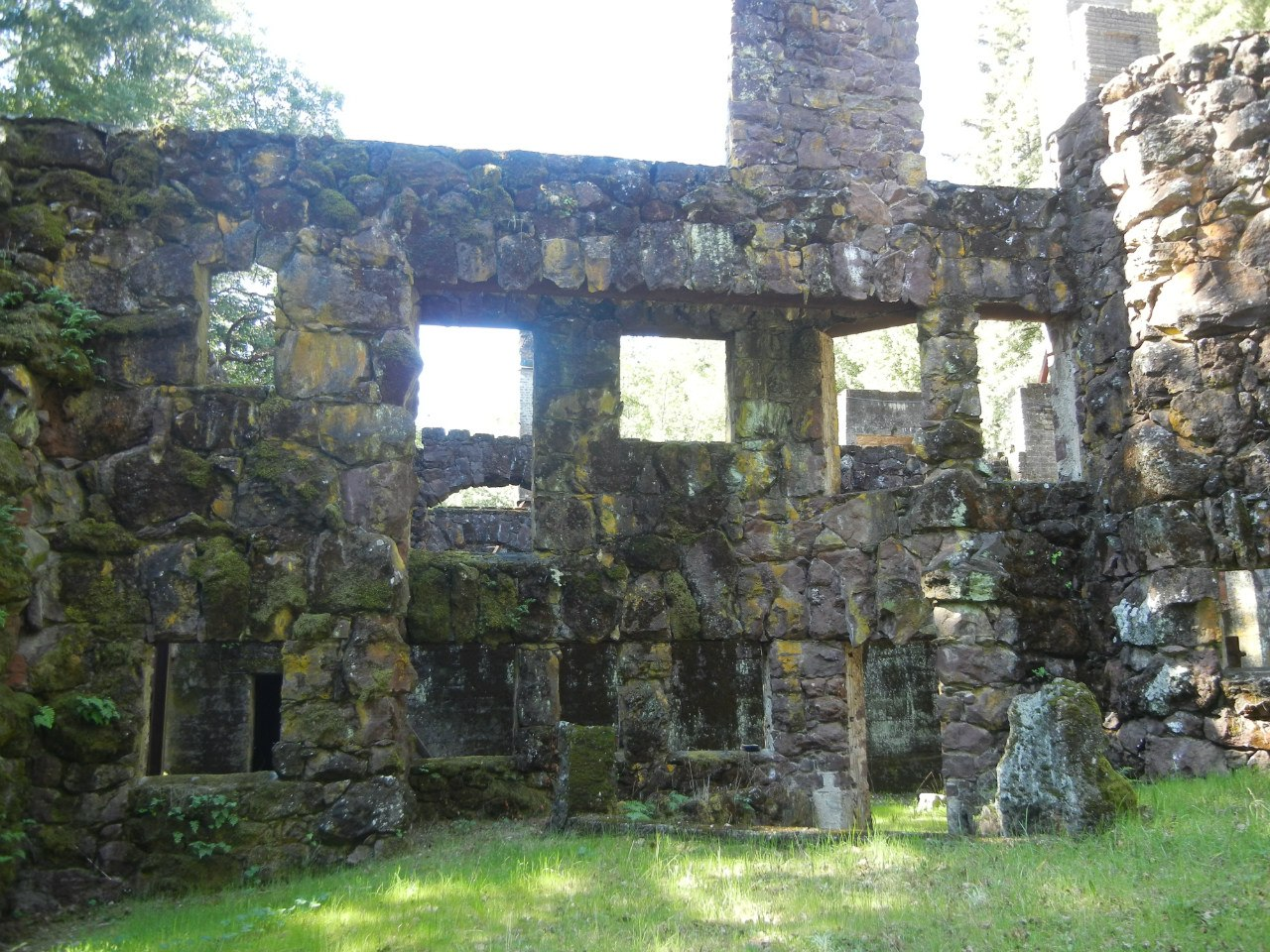 The ruins of the Wolf House (Jack London State Historic Park, Glen Ellen, CA)